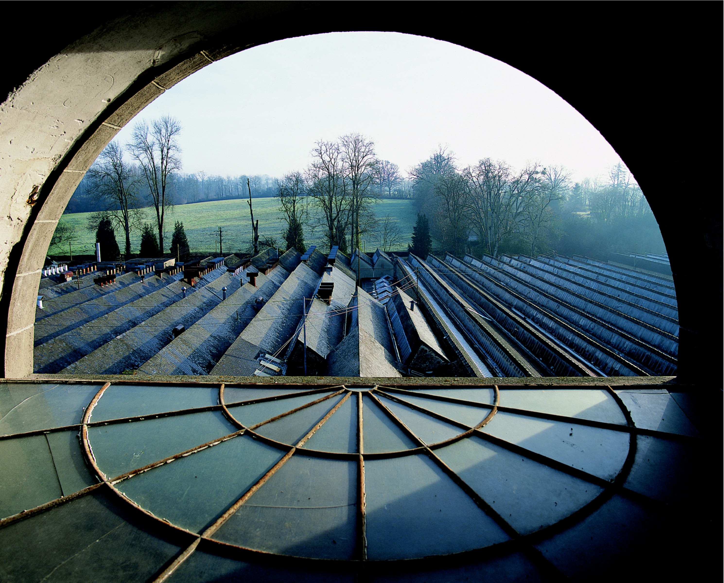 Toits de l'usine